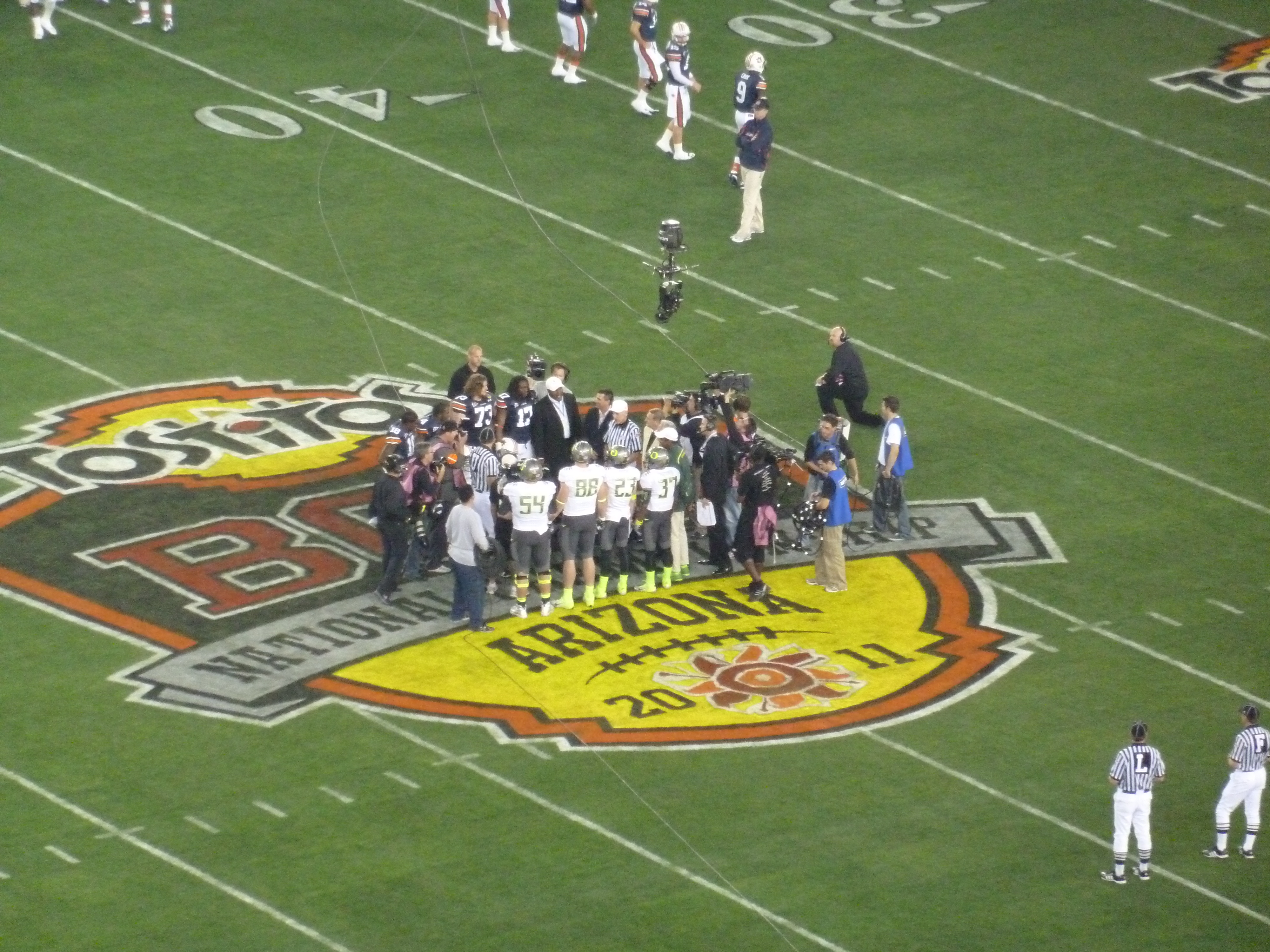 The opening coin toss in the 2011 BCS National Championship Game. The game featured the Oregon Ducks and the Auburn Tigers on January 10th, 2011. Auburn won the game 22-19. The team captains for the Ducks were: #54 OL Jordan Holmes #88 DT Brandon Bair #23 WR Jeff Maehl #37 CB Talmadge Jackson III